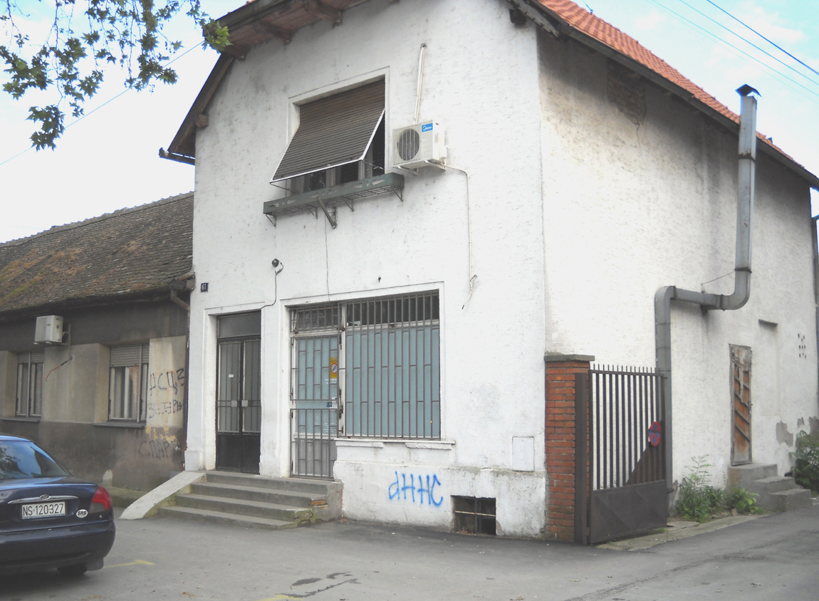 Masjid of Islamic Religious Community in Novi Sad. Prayers are performed in Bosnian language.